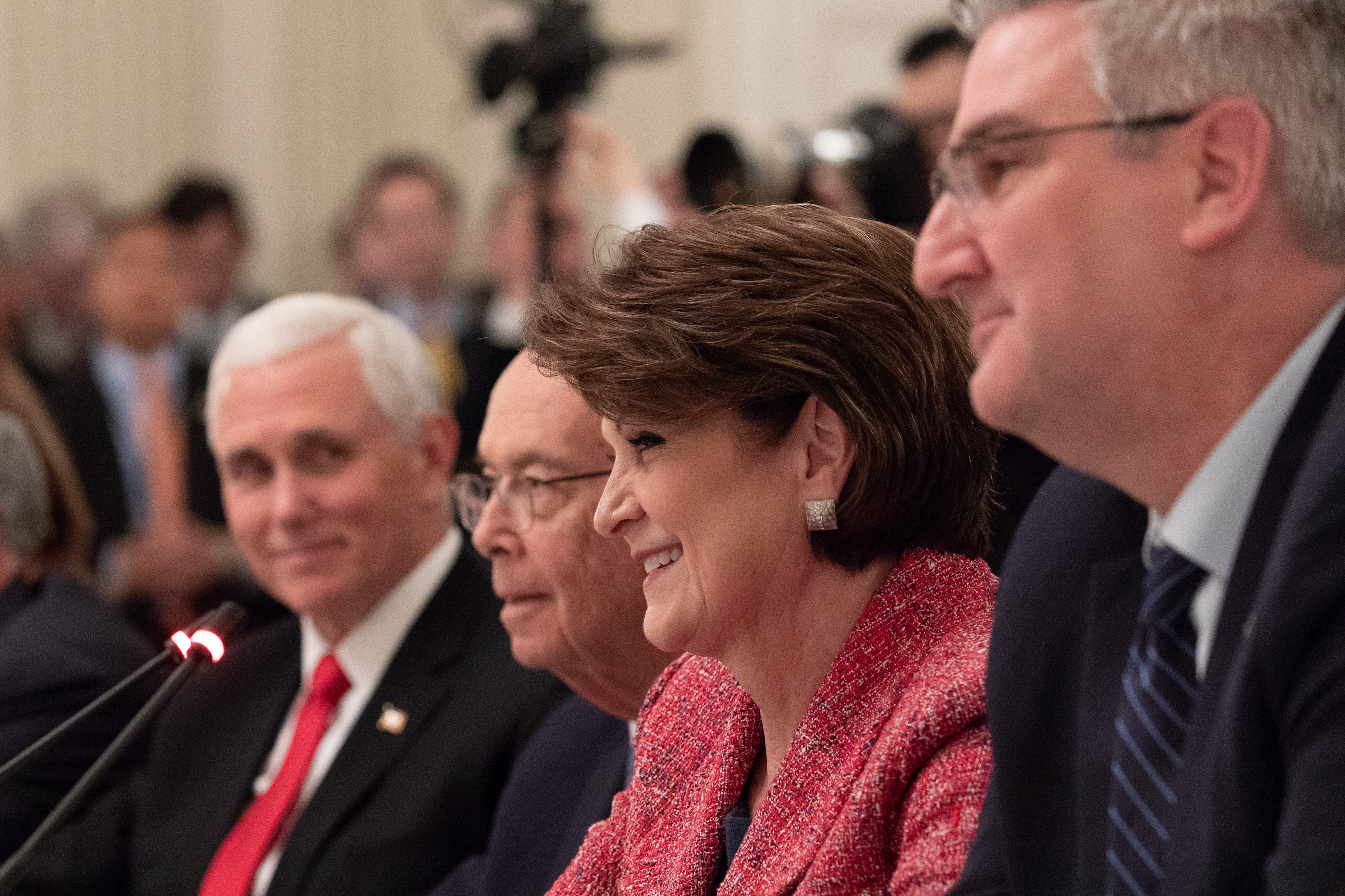 Marillyn Hewson, CEO of Lockheed Martin, addresses her remarks to President Donald J. Trump, joined by Vice President Mike Pence, during the American Workforce Policy Advisory Board Meeting Wednesday, March 6, 2019, in the State Dining Room of the White House. (Official White House Photo by Joyce N. Boghosian)